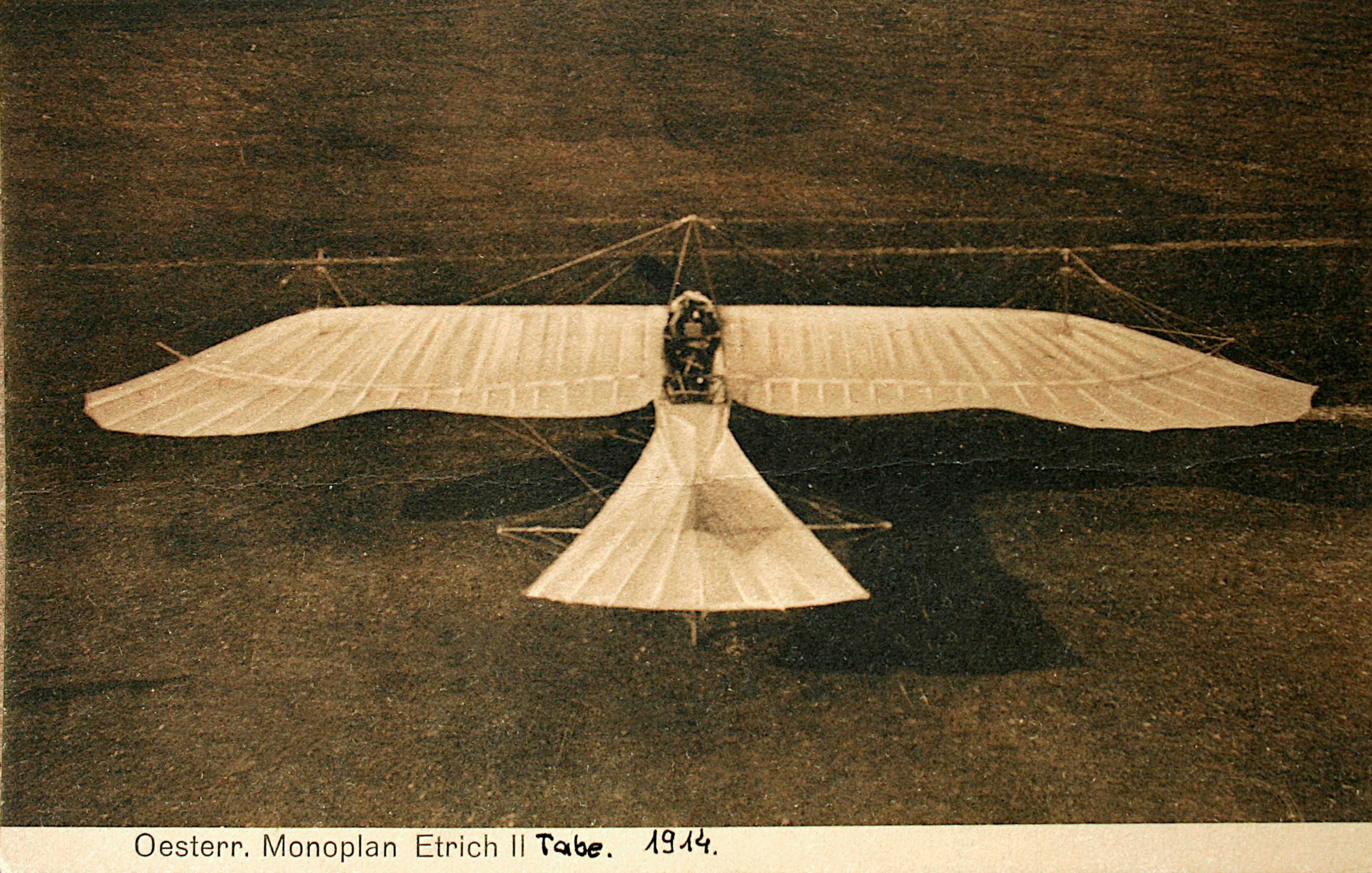 Monoplan Etrich Taube II. - Austro-Hungarian Monarchy - postcard reproduction First military aeroplane in Austro-Hungarian Monarchy Army. 1914